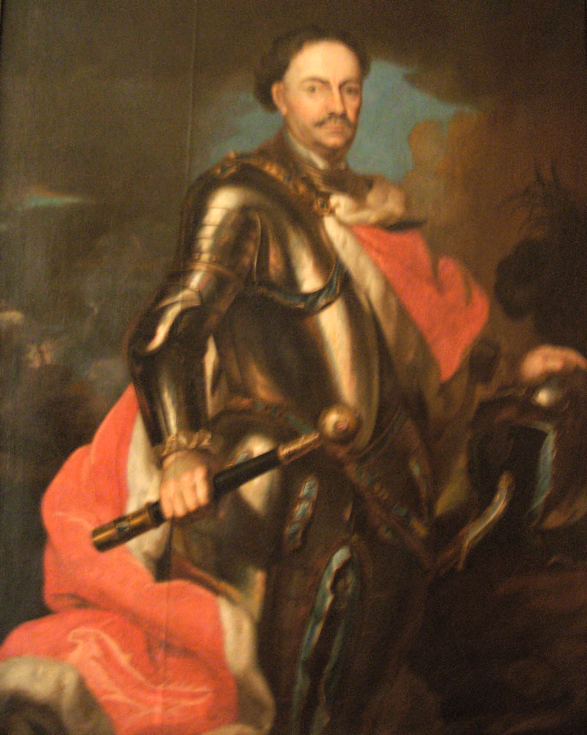 Łańcut Castle and neighbourhood. Many photos courtesy of Łańcut Museum staff. Hieronim Augutyn Lubomirski Great Hetman of The Polish Crown